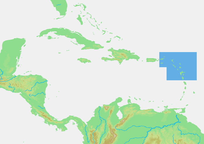 Caribbean - Leeward Islands.PNG